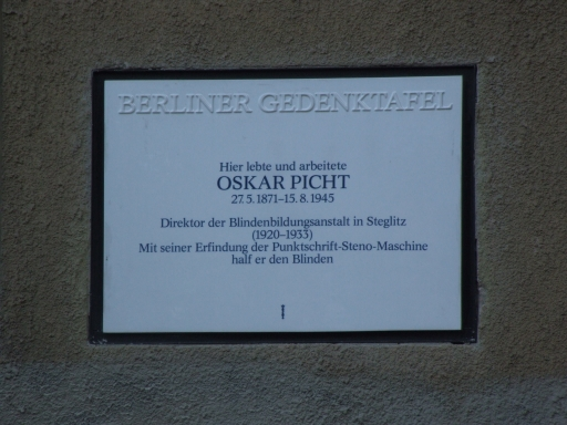 Berlin's commemorative plaque dedicated to Oskar Picht at Rothenburg street 14 at Berlin-Steglitz